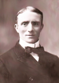 Variety show performer Tom Leamore.